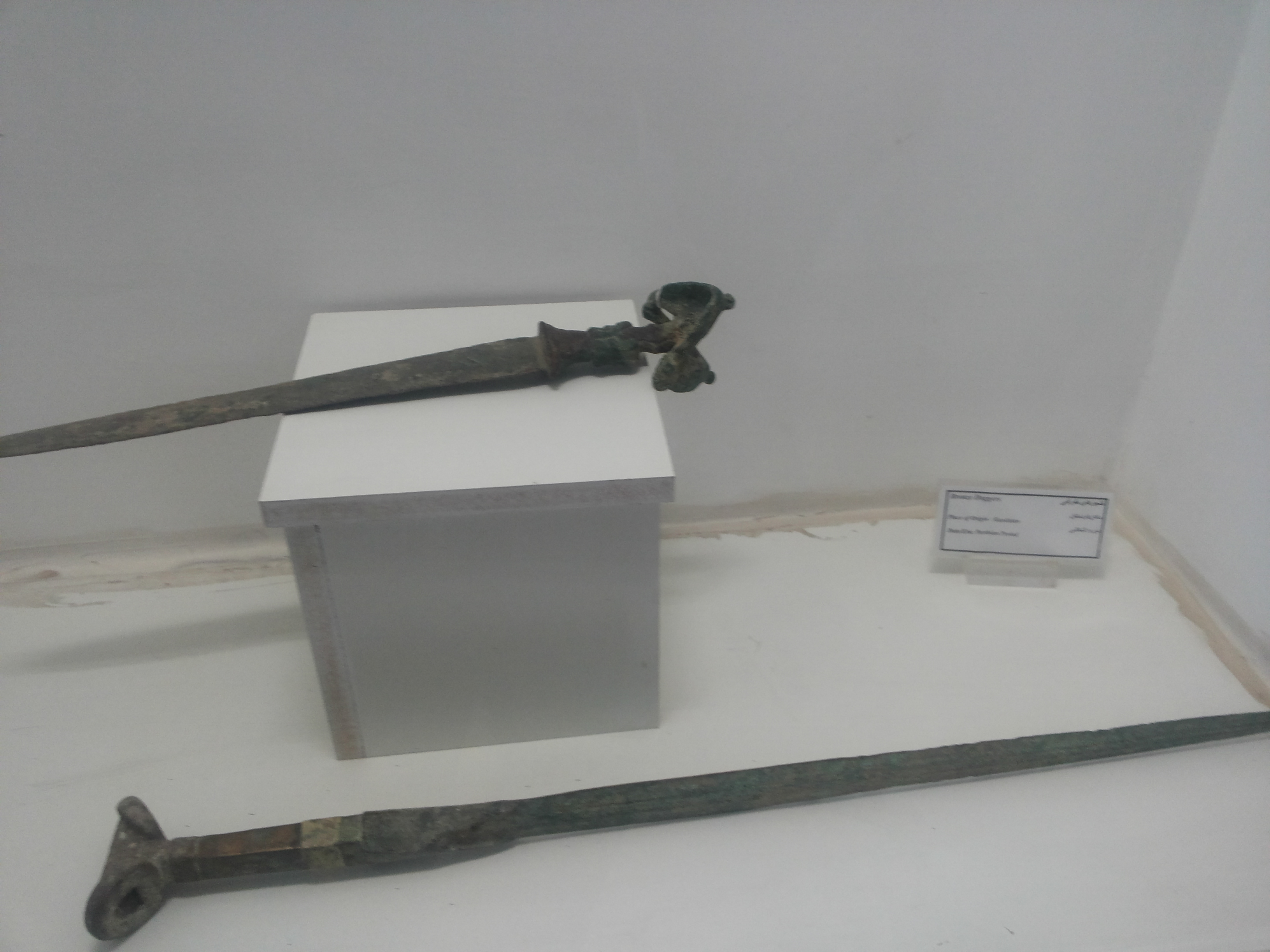 Bronze age daggers in Kurdistan, museum of Sine.